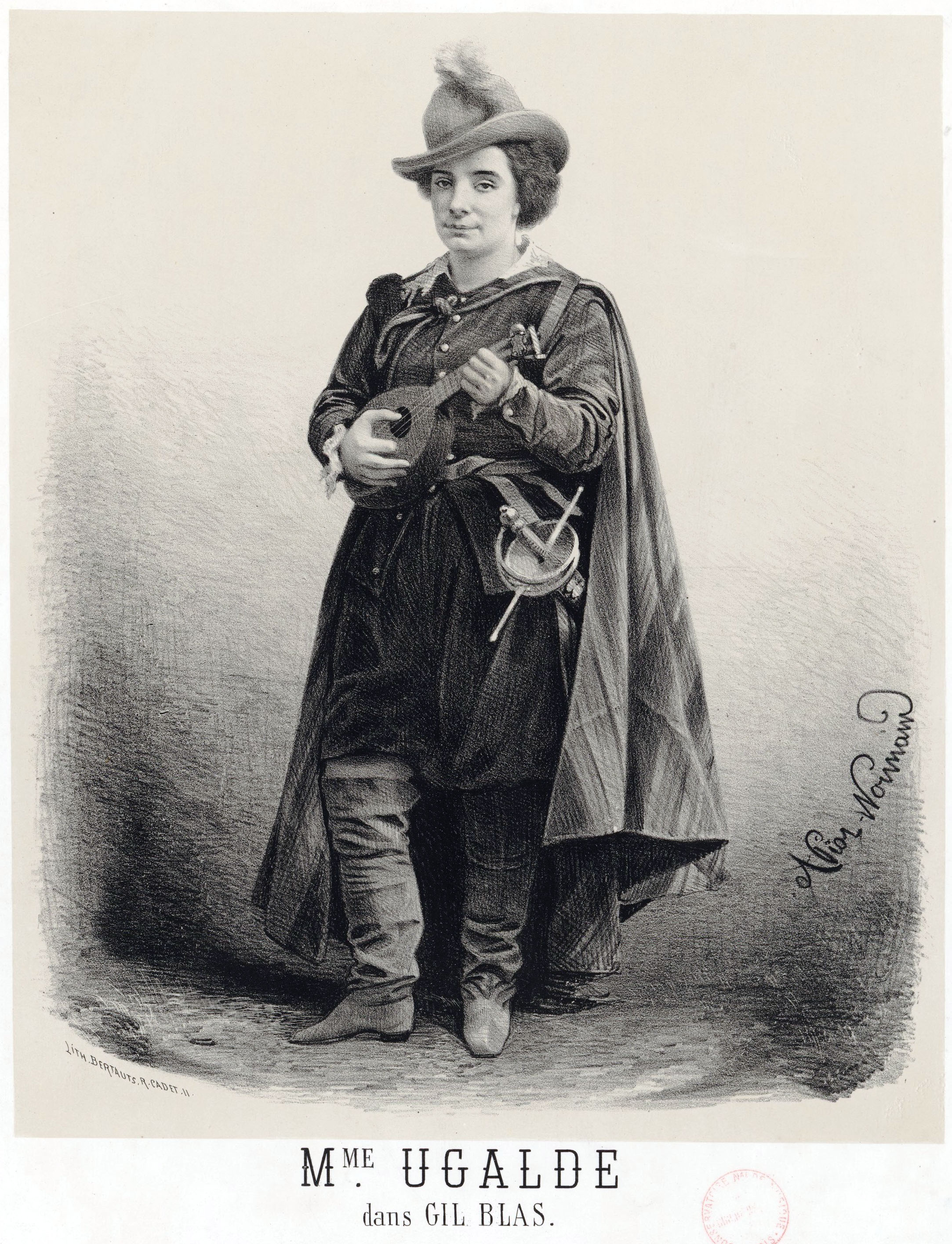 Delphine Ugalde in the title role of Théophile Semet's 5-act opéra-comique Gil Blas, a part which she created at the Théâtre Lyrique in Paris on 24 March 1860